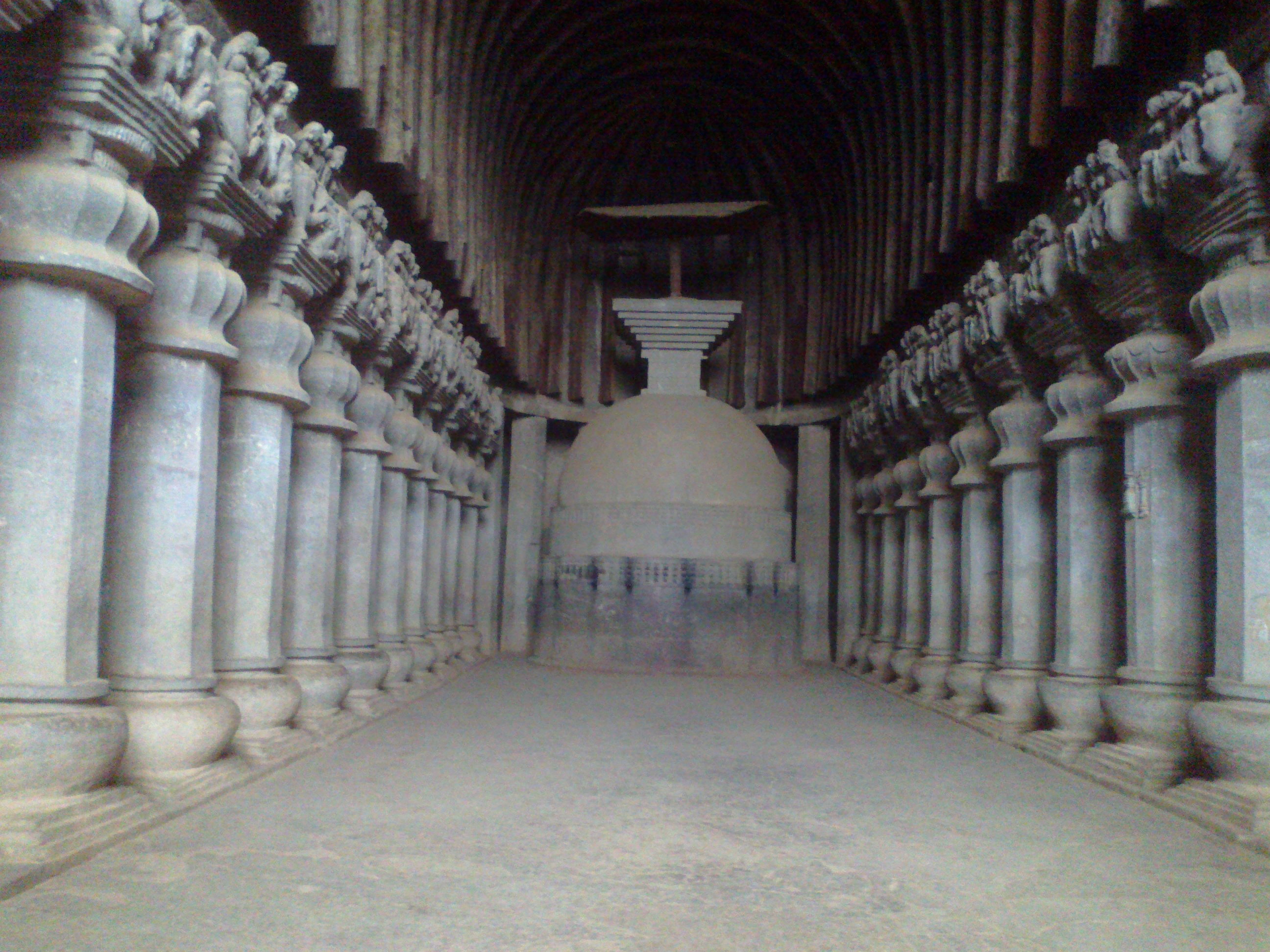 Caves, Temple and inscription (Karla Caves)